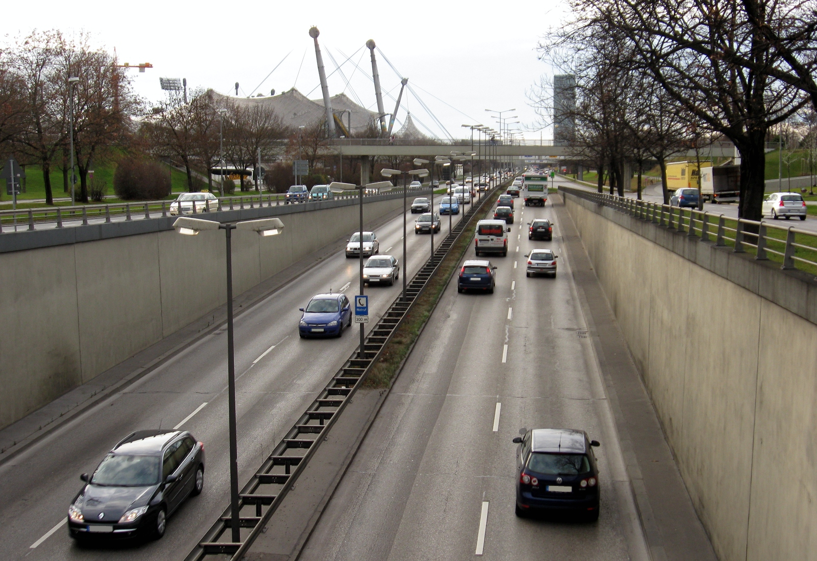 Eastern end of the Georg-Brauchle-Ring in Munich (Bavarian, Germany) crossing Lerchenauer Straße